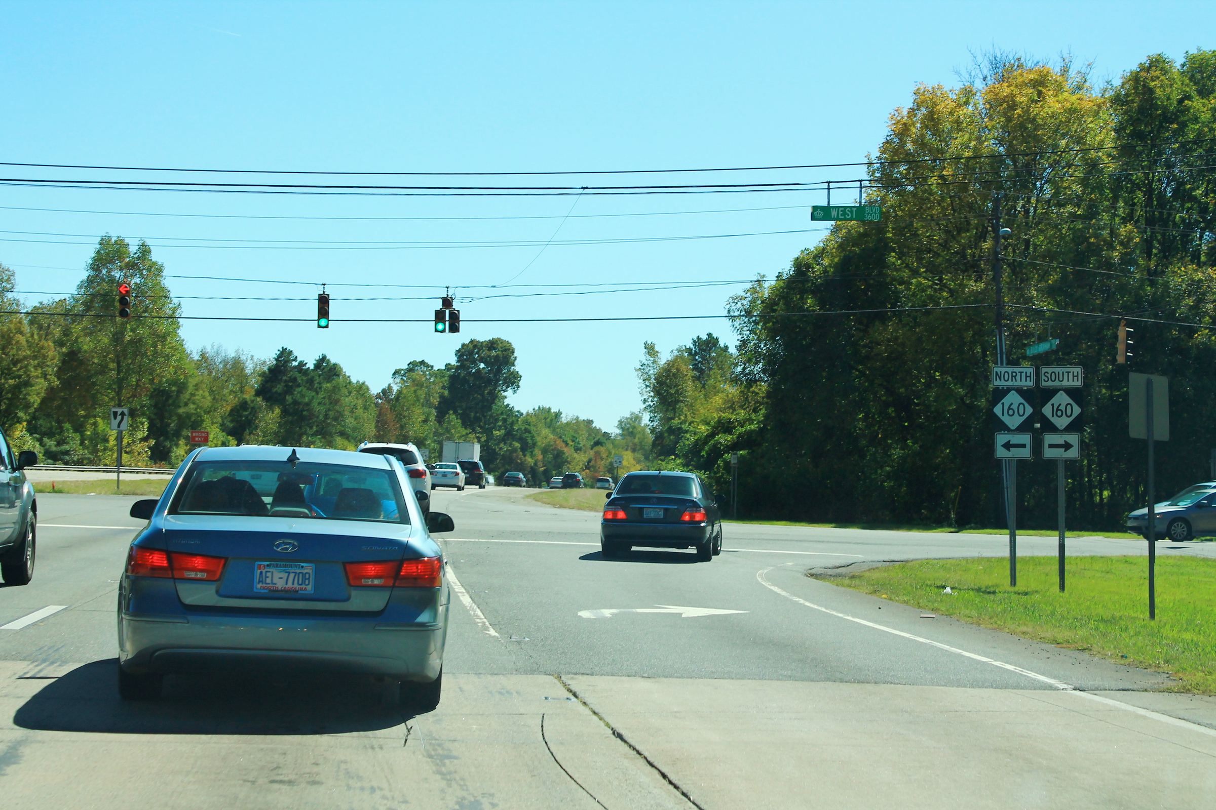 CLT4sRoad-NC160nsSigns